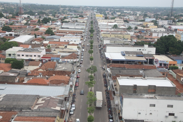 City of Gurupi